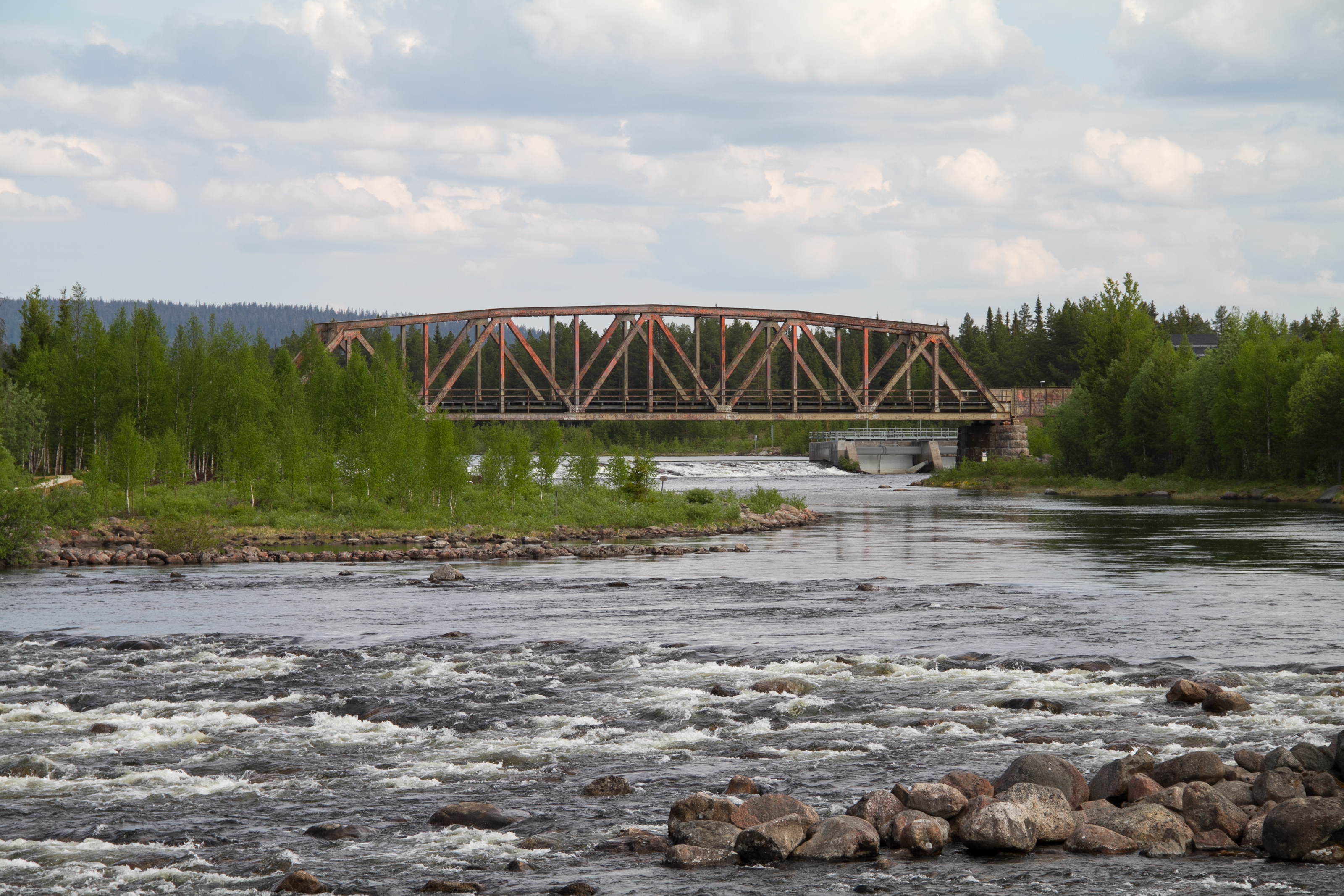 Skellefte älv at Slagnäs, Arjeplog municipality, Norrbotten county, Sweden.